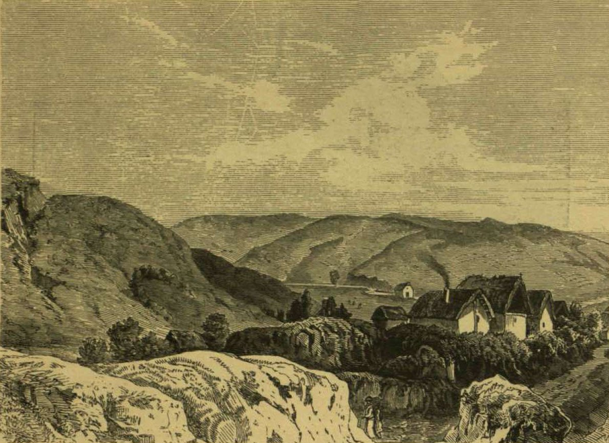 The place where the Battle of Isaszeg (06.04.1849) took place.